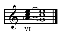 Augmented triad with resolution in C-Dur (harmonic)